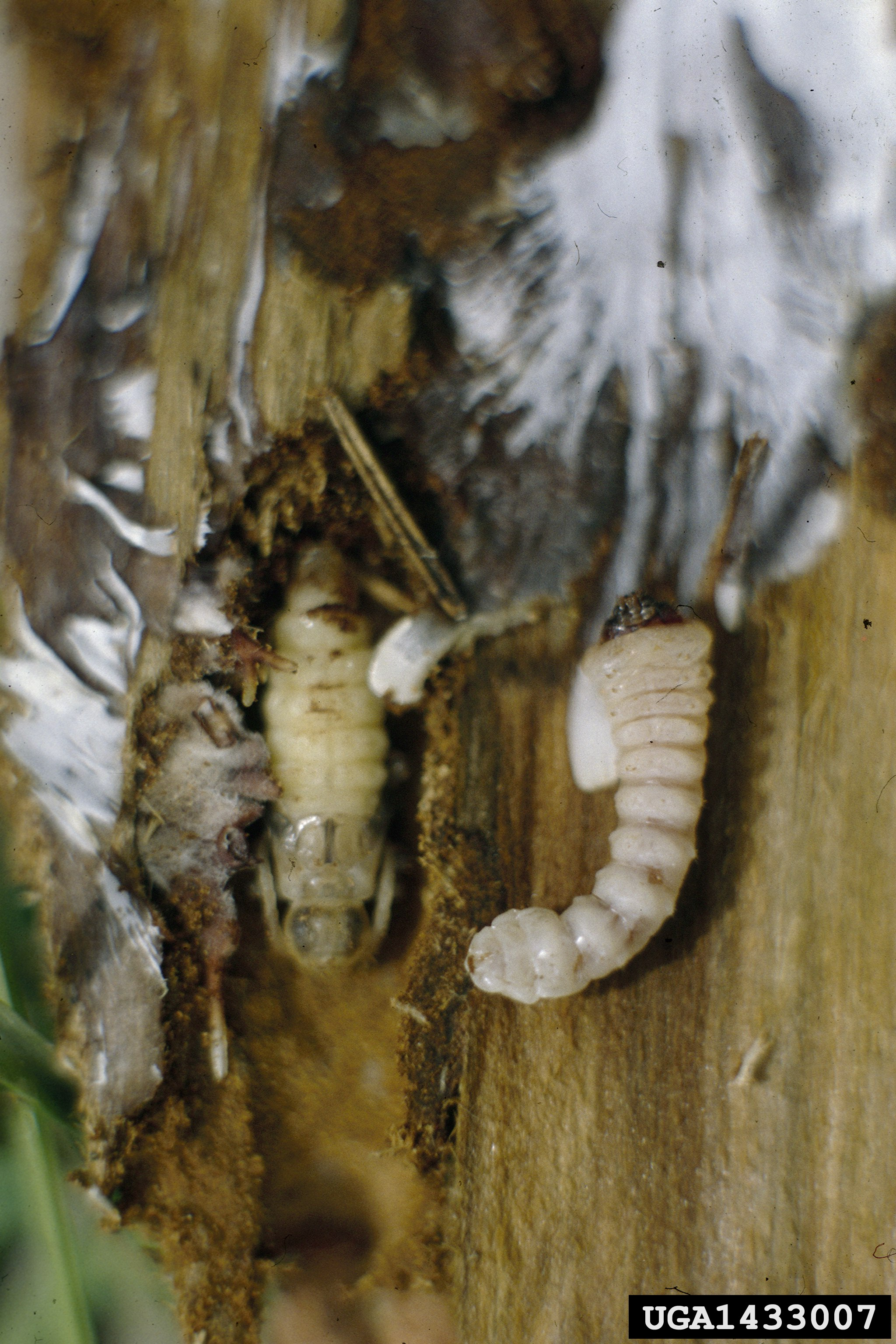 Black spruce beetle (Tetropium castaneum) Pupa (left) and larva (right)